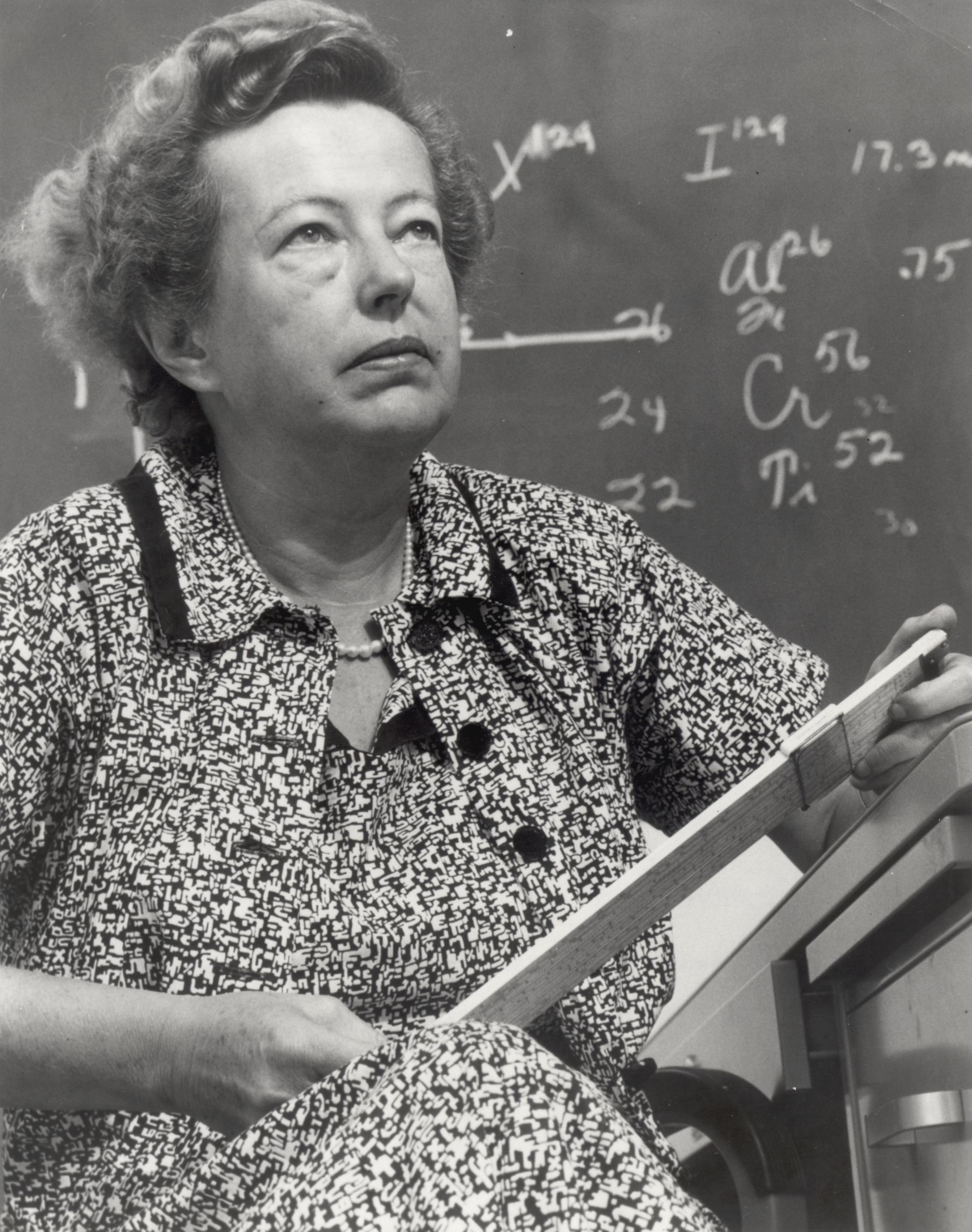 Portrait of Dr. Maria Goeppert-Mayer.